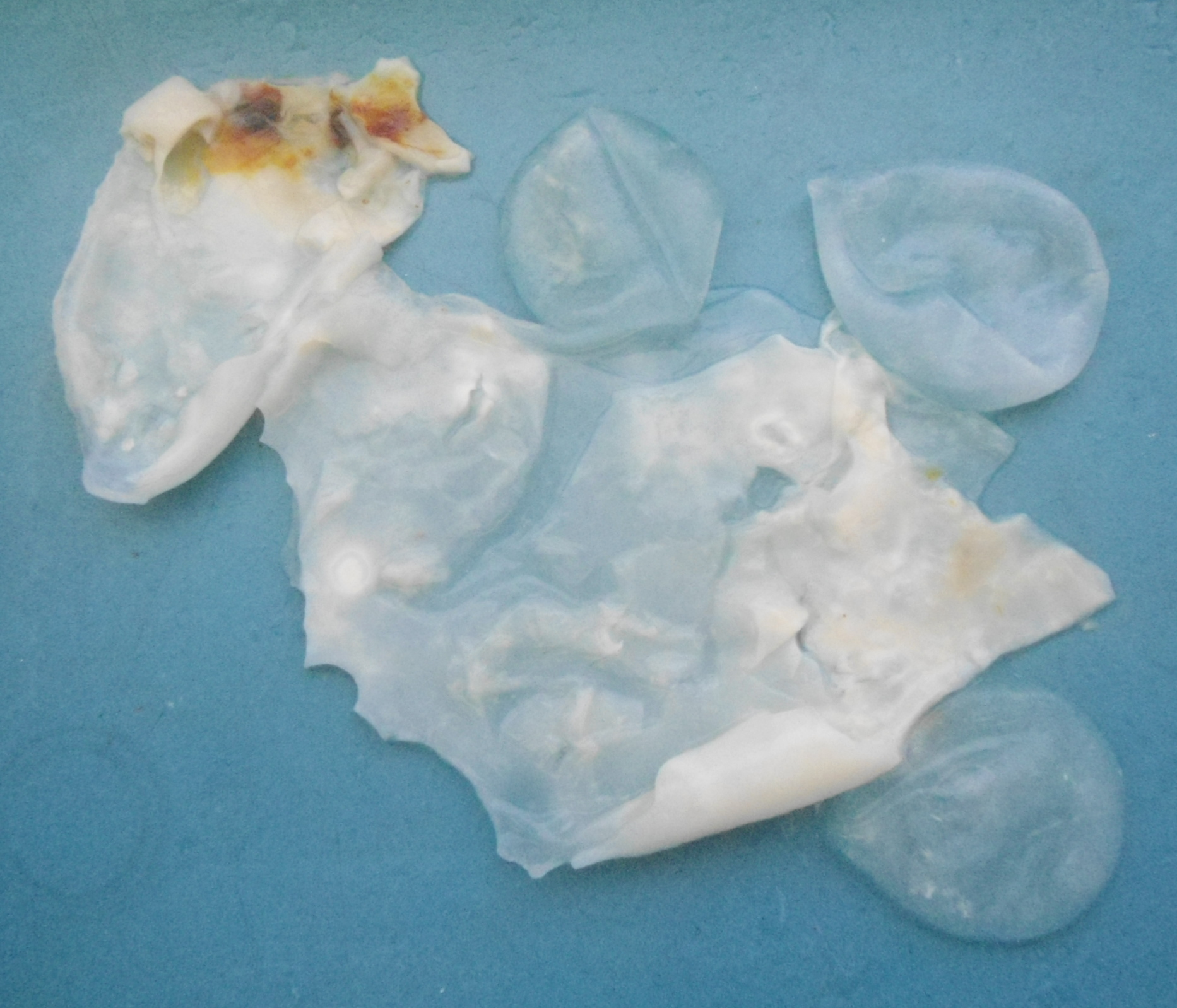 Cut opened hydatid cyst resembling ‘tender coconut’